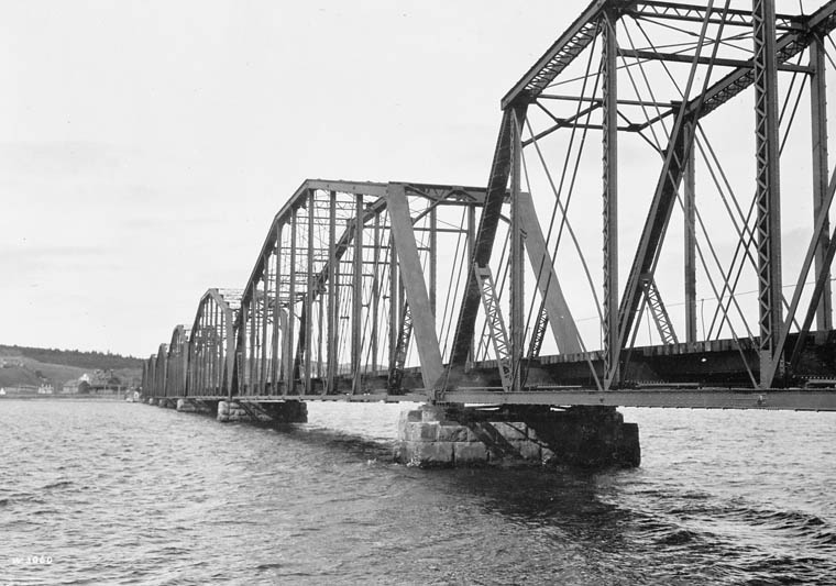 The Intercolonial Railway of Canada Bridge, Grand Narrows Cape Breton, N.S., Canada. Credit: Canada. Dept. of Mines and Resources / Library and Archives Canada / PA-021553 Restrictions on use: Nil Copyright: Expired